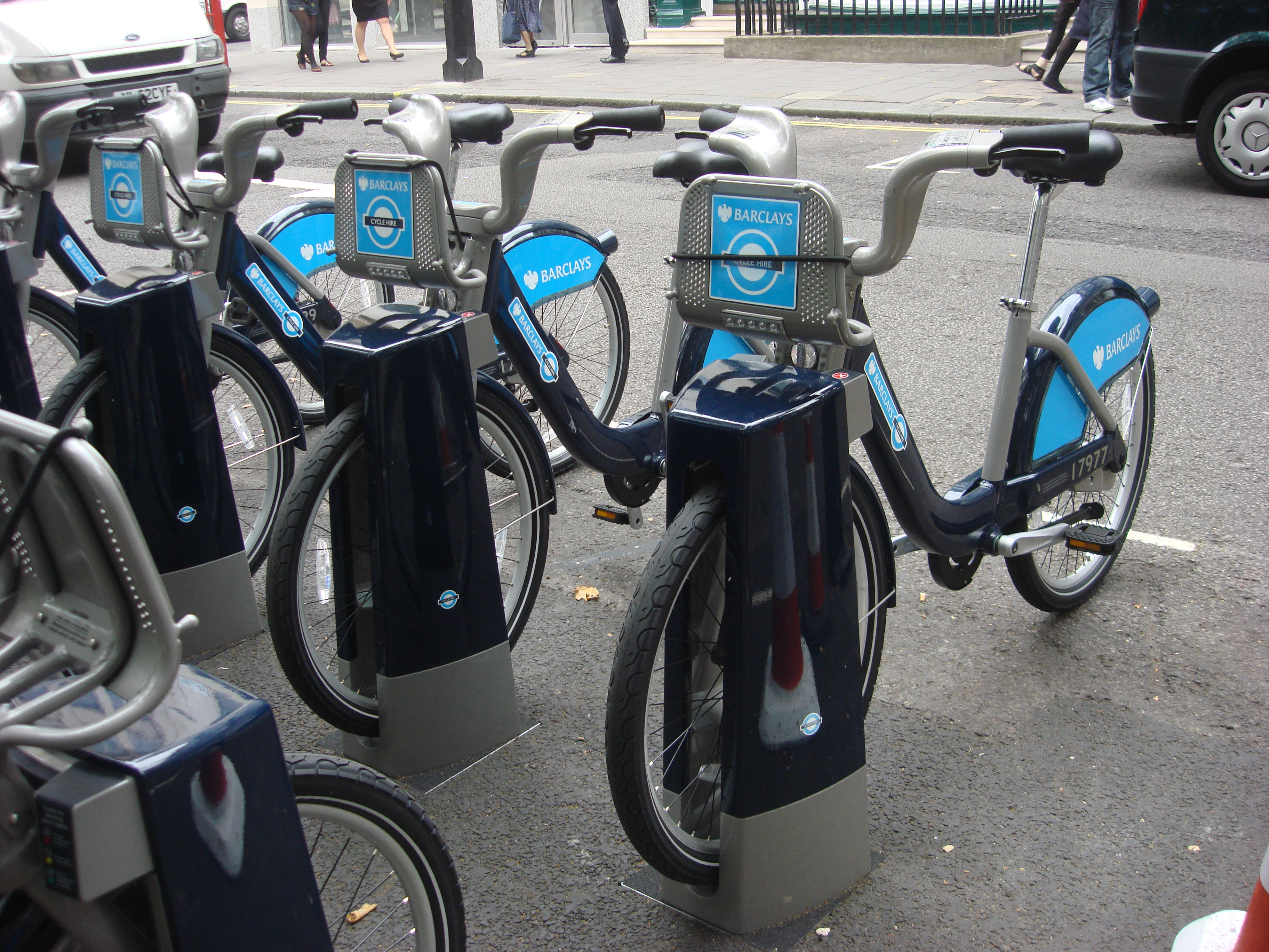 Bycycles at Barclays Cycle Hire Soho Square docking station.